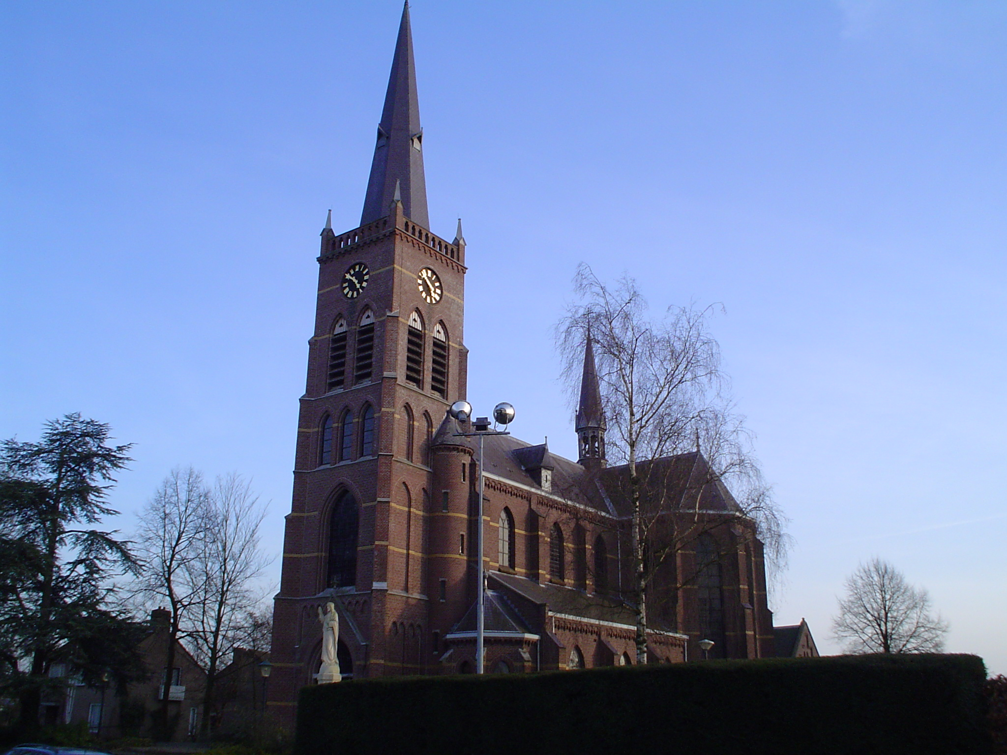 The St. Jan de Doper church, built in 1912, located in Oerle near Veldhoven.